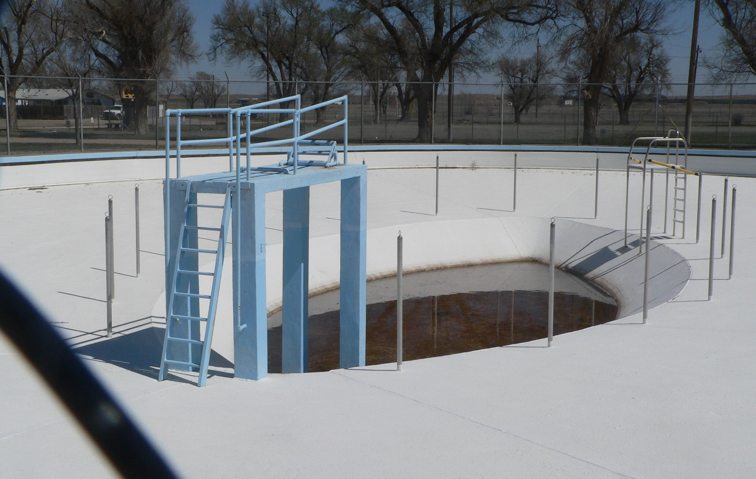 Central diving area of municipal swimming pool in Fowler, Kansas; seen from the west.